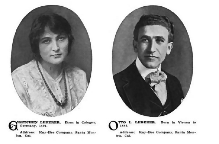 Gretchen and Otto Lederer